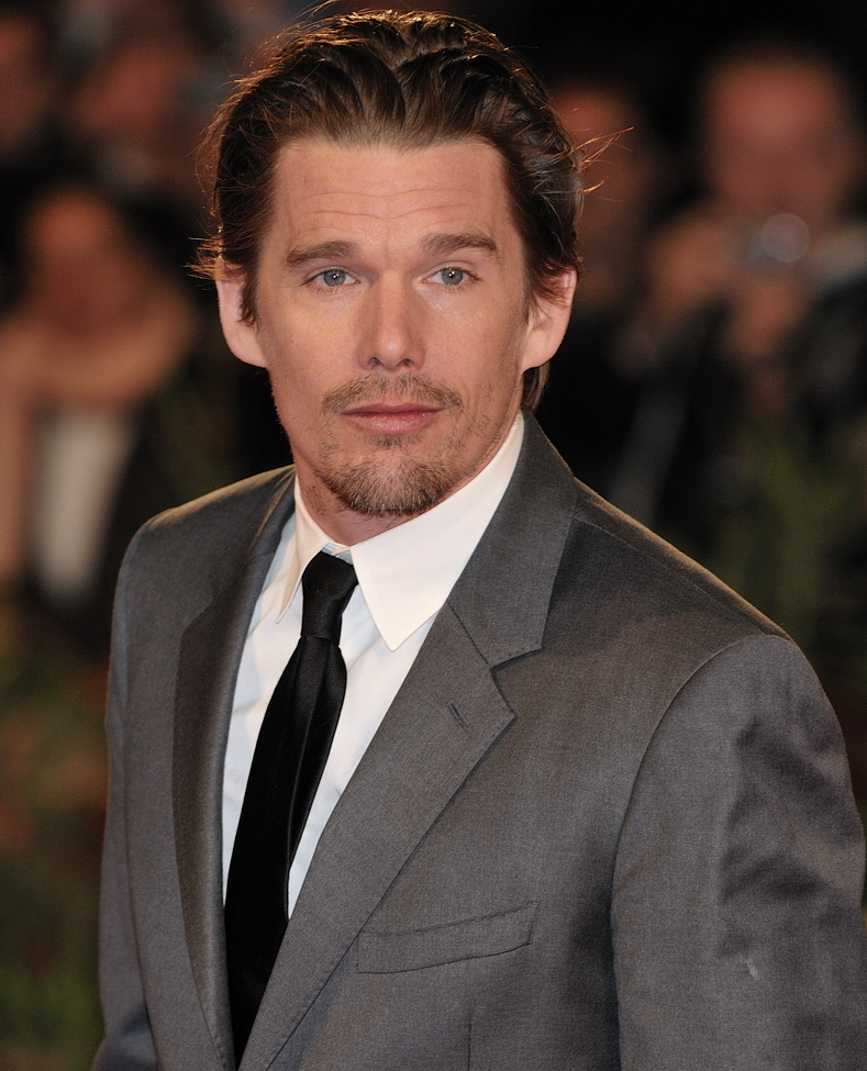 66ème Festival du Cinéma de Venise (Mostra), 8ème jour (07/09/2009) Tapis rouge avec Ethan Hawke et Wesley Snipes et le réalisateur Antoine Fuqua pour le film : Brooklyn's finest